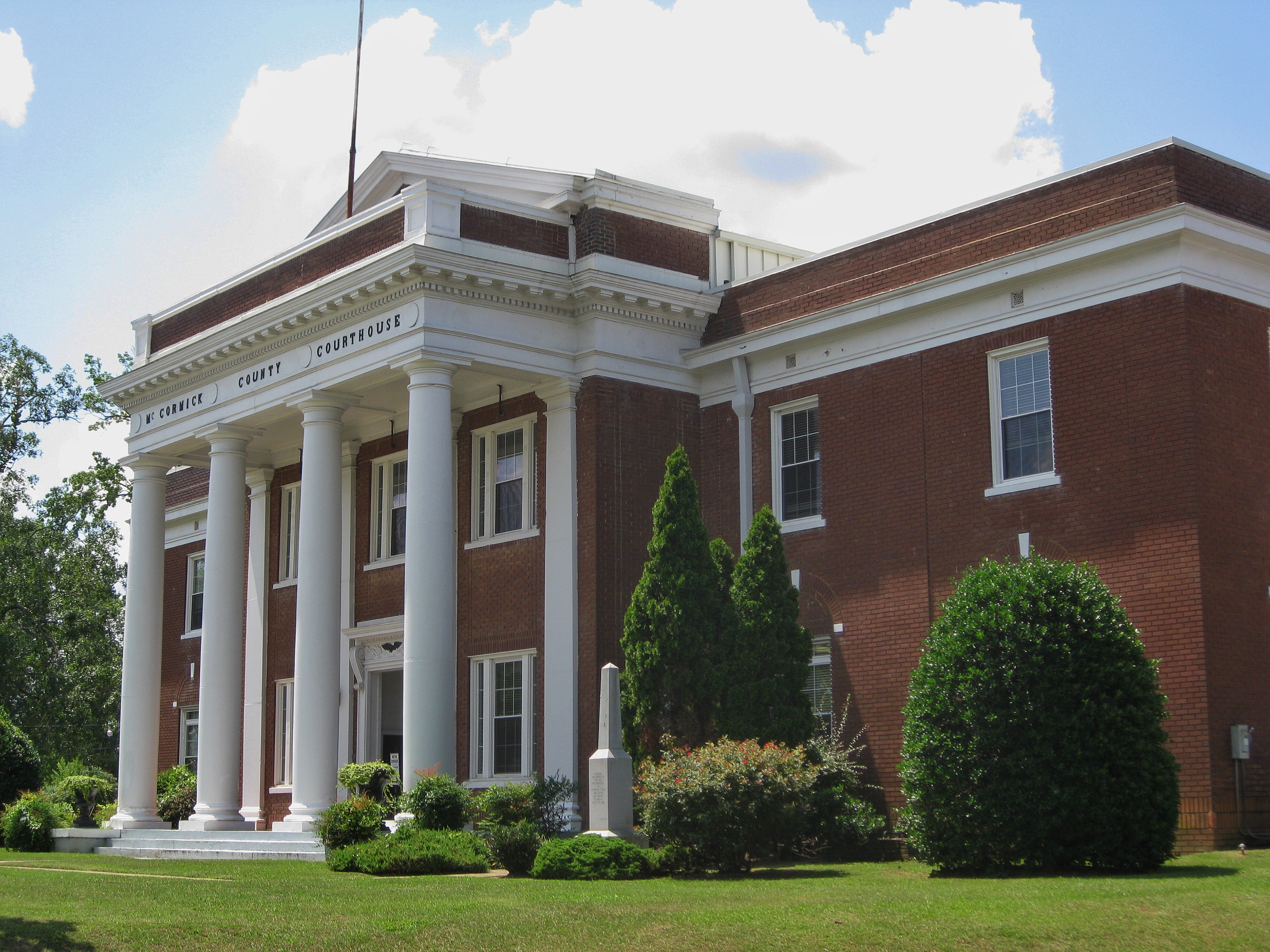 Built in 1923, this Classical Revival Courthouse was added to the National Register of Historic Places in 1985.